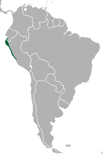 Sechuran Fox range